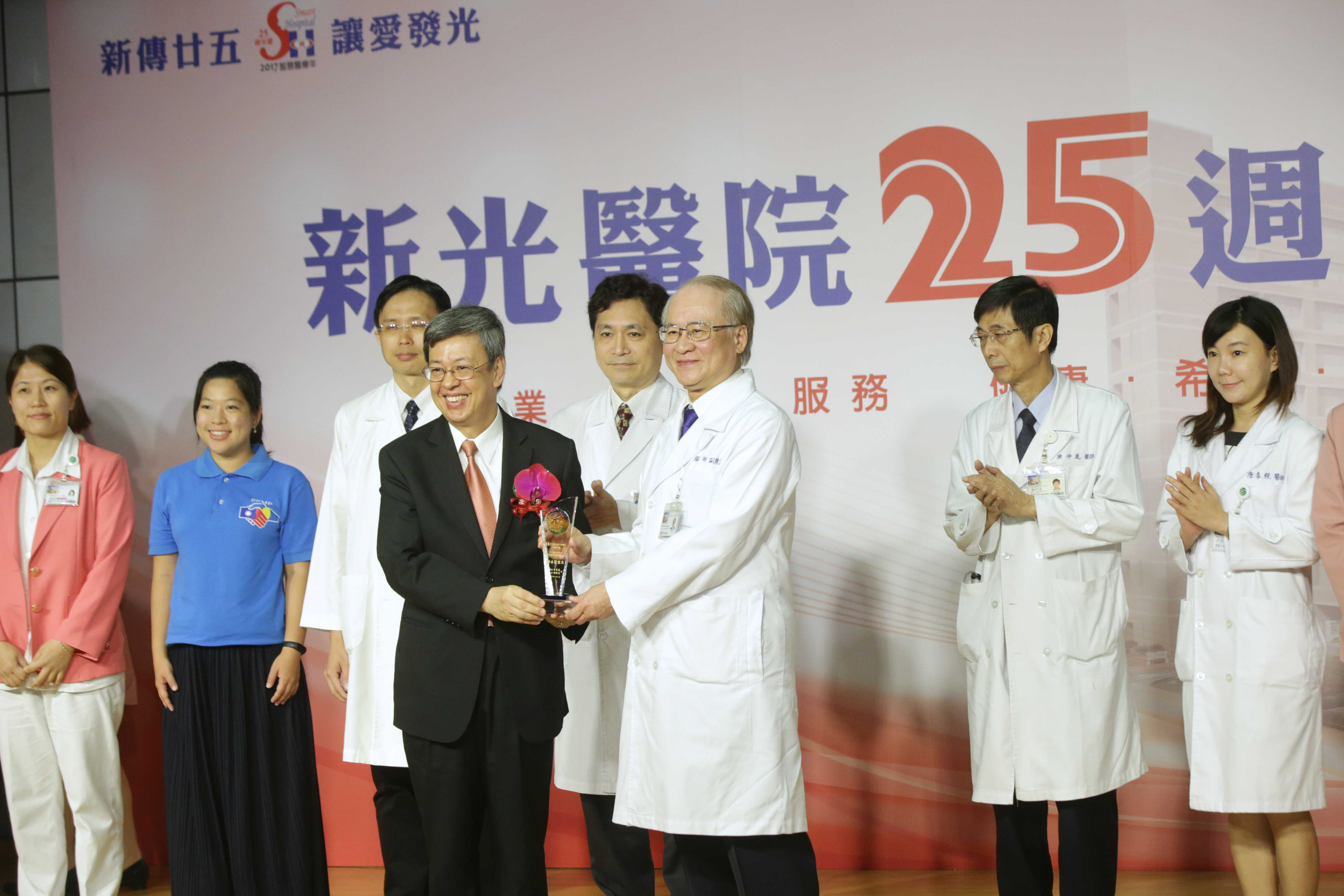 授權方式及範圍：中華民國總統府│政府網站資料開放宣告 Authorization Method & Scope: Office of the President, Republic of China (Taiwan) | Government Website Open Information Announcement